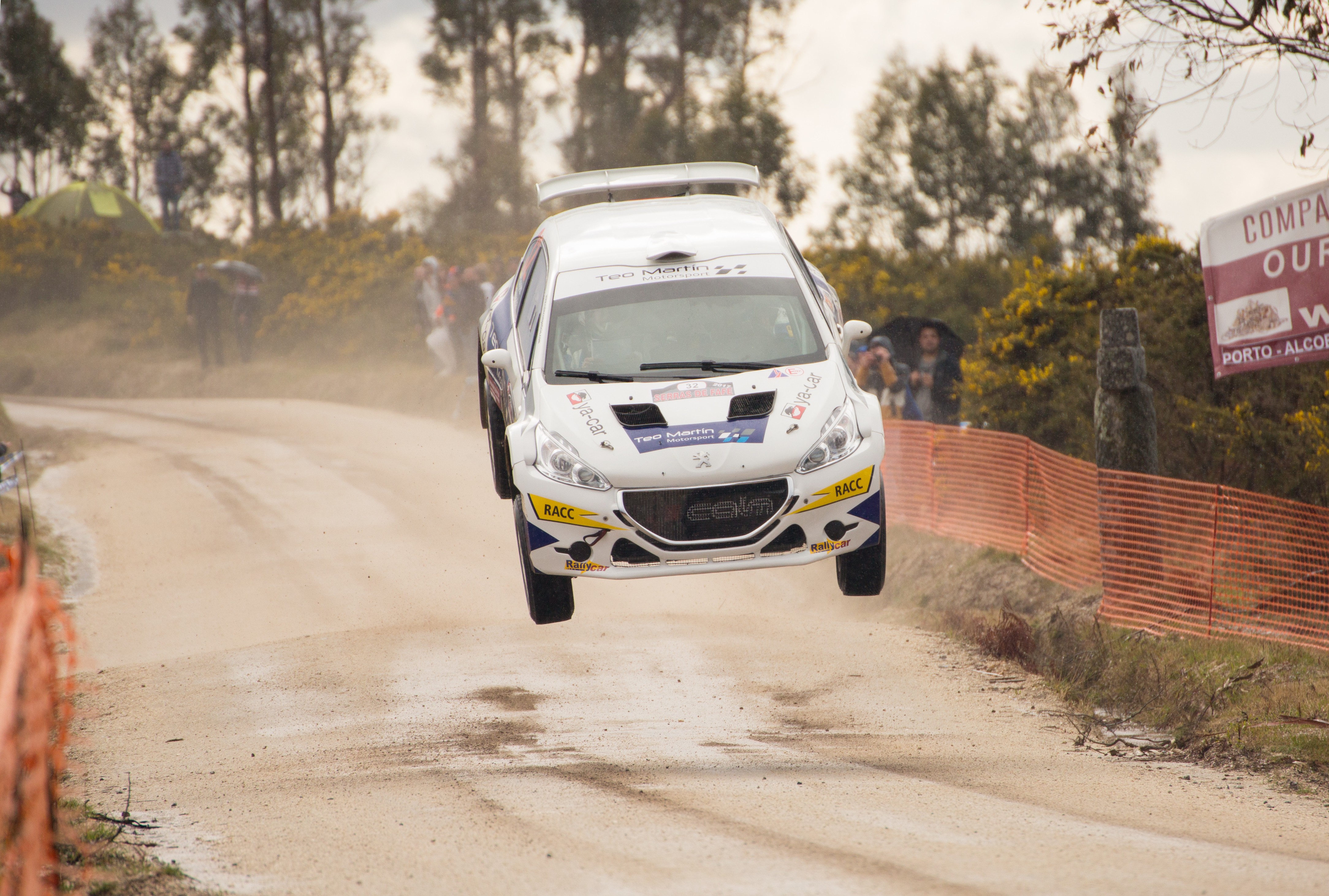 Pepe Lopez, Peugeot 208 T16, at Rally Serras de Fafe 2017.